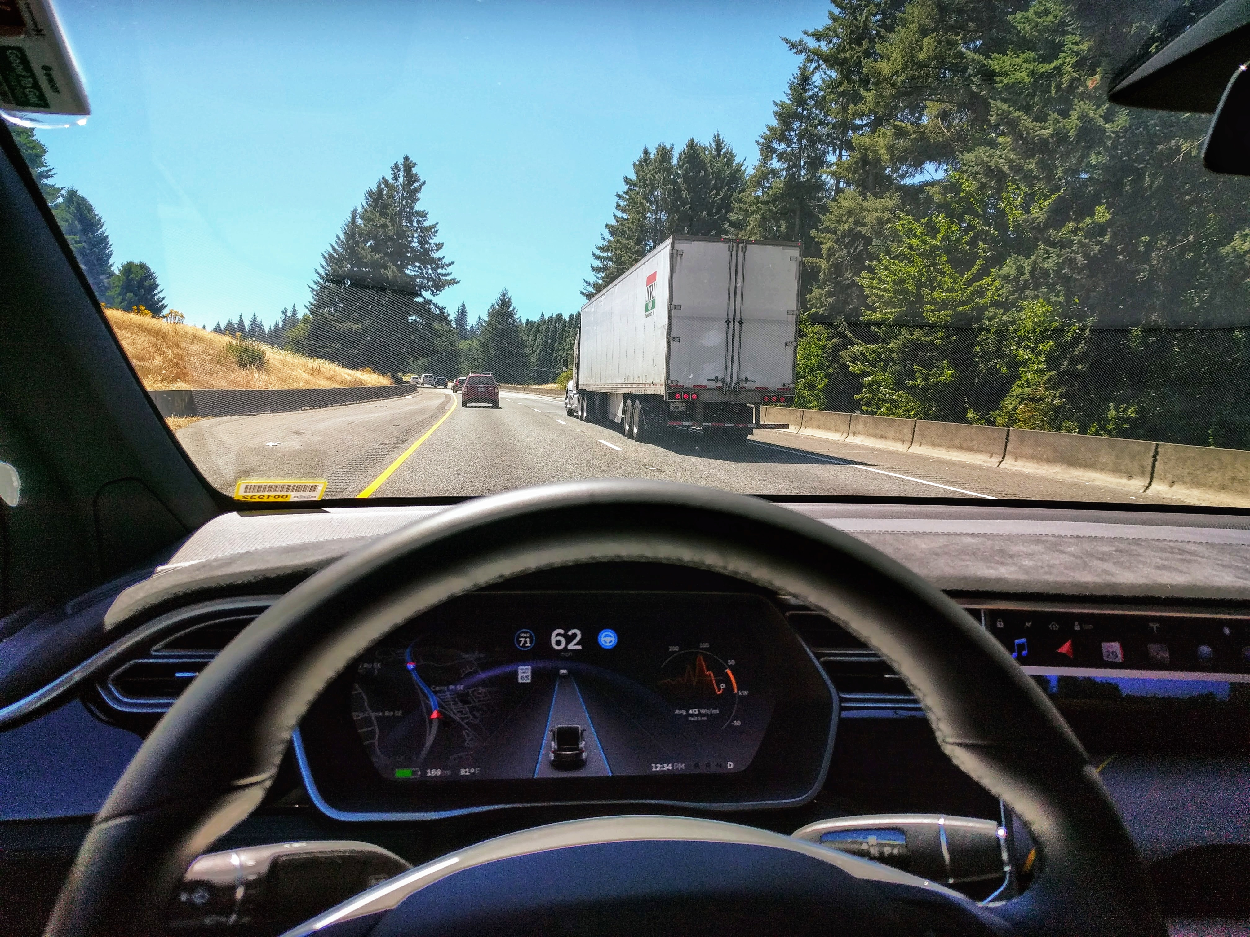 Driving in traffic with Tesla's autopilot controlling distance from the lead car and centering the vehicle in the lane. Vehicle is a 2017 Model X 75D with dark interior.